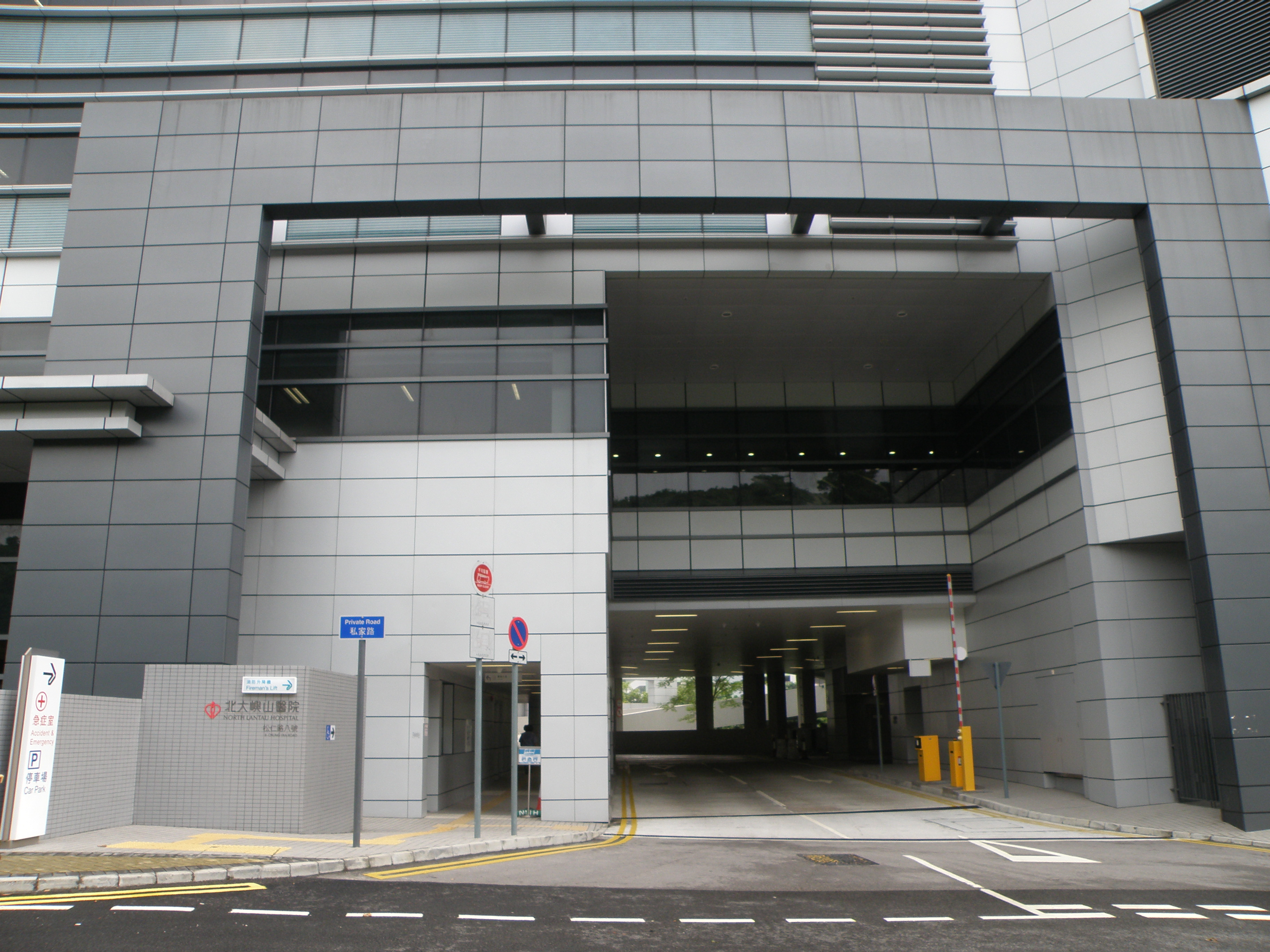 North Lantau Hospital accident & emergency entrance in Tung Chung, Hong Kong.